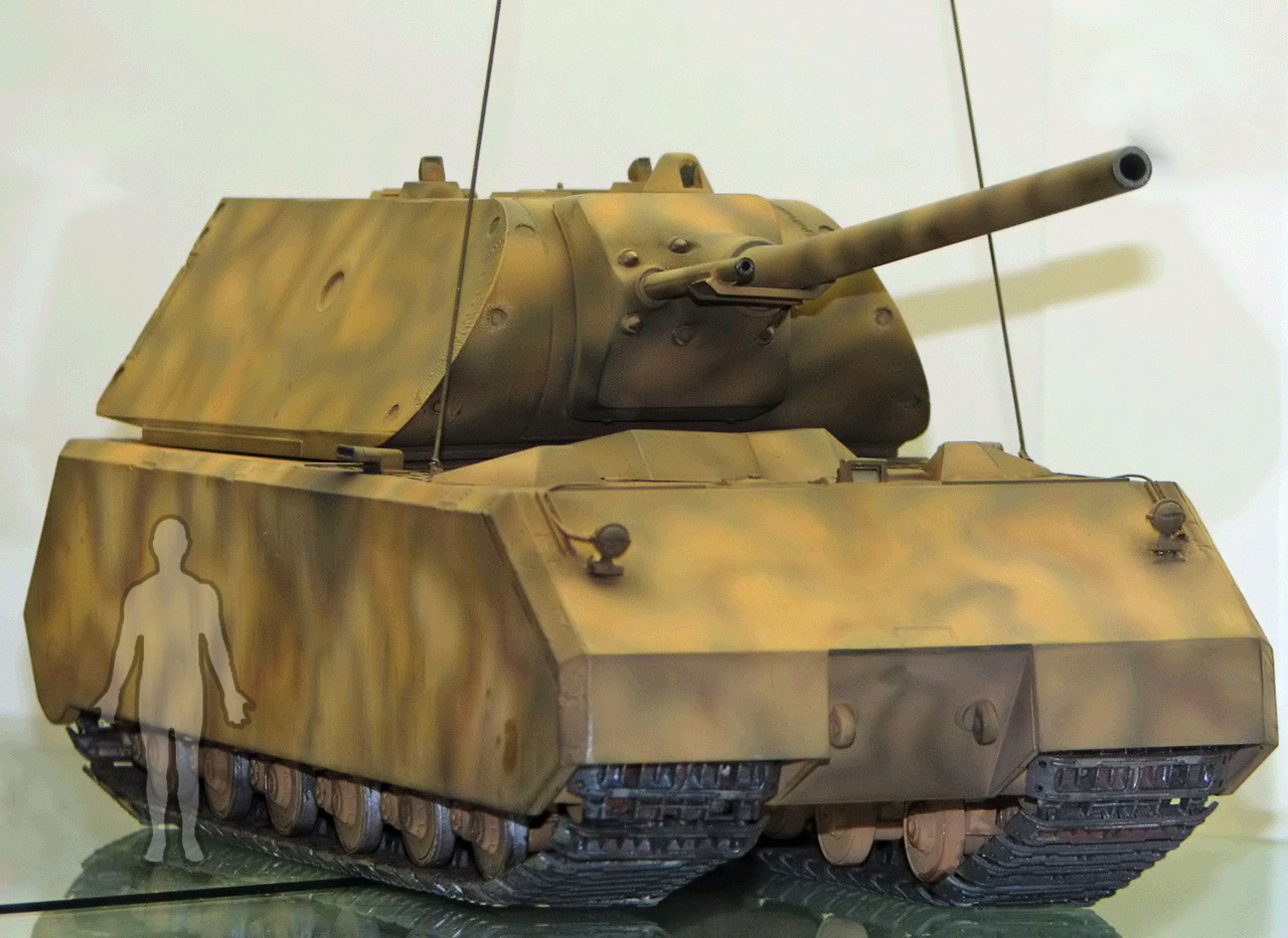 Edited version of Maus tank model, with human male figure added to give sense of size.